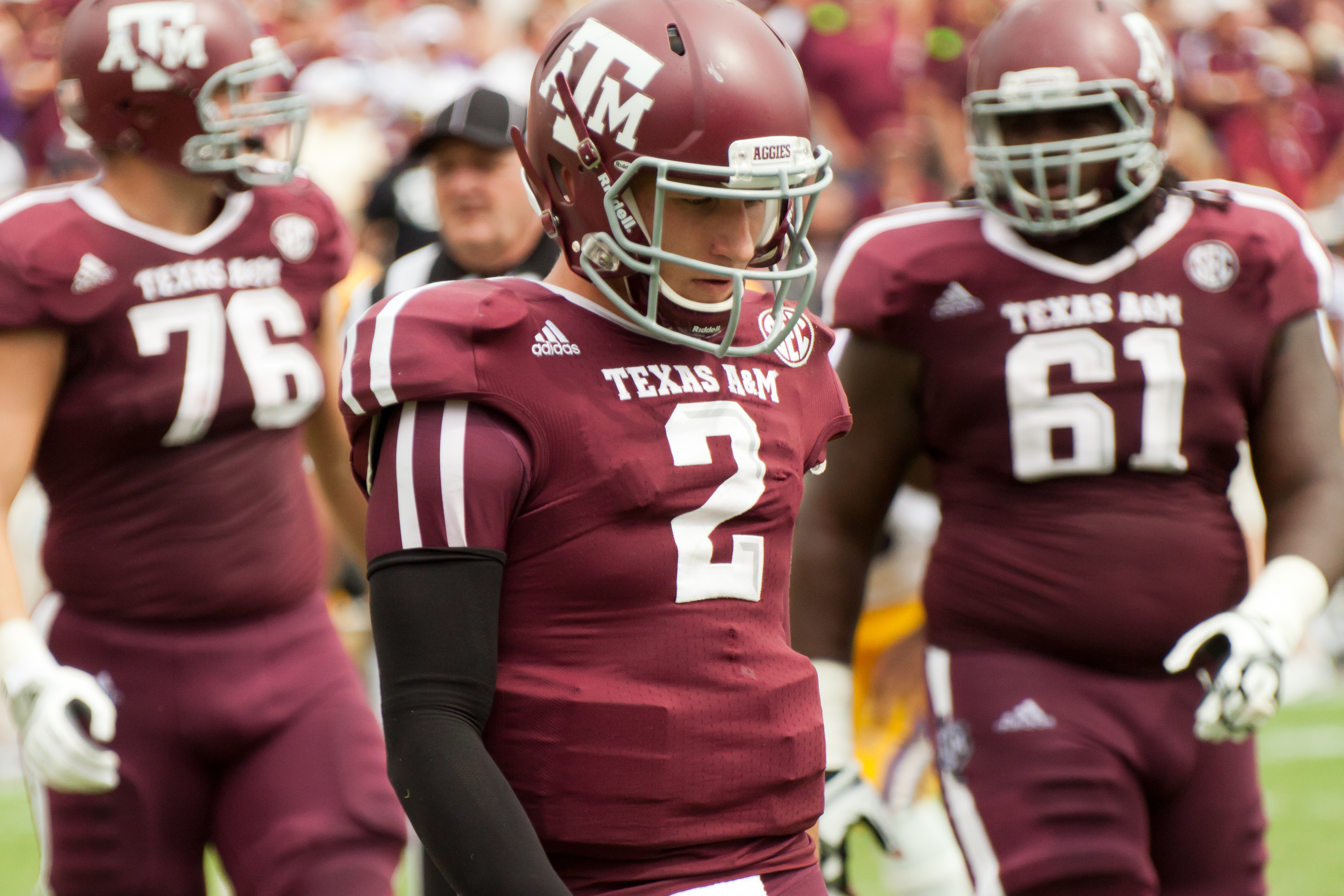 Texas A&M quarterback Johnny Manziel playing against the LSU Tigers on October 20th, 2012 in Kyle Field in College Station Texas